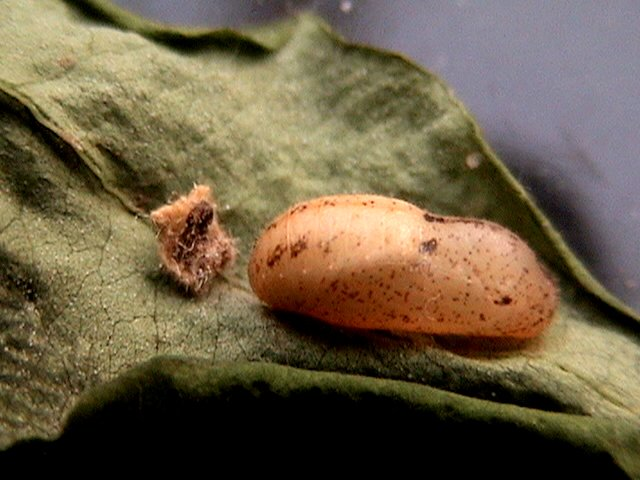 Pupa of Zebra blue (Leptotes plinius) on leaf of plumbago